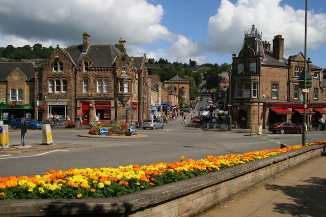 Bank Road, Matlock Looking up Bank Road towards Matlock Bank. Crown Buildings on the right facing the roundabout was built in 1889.